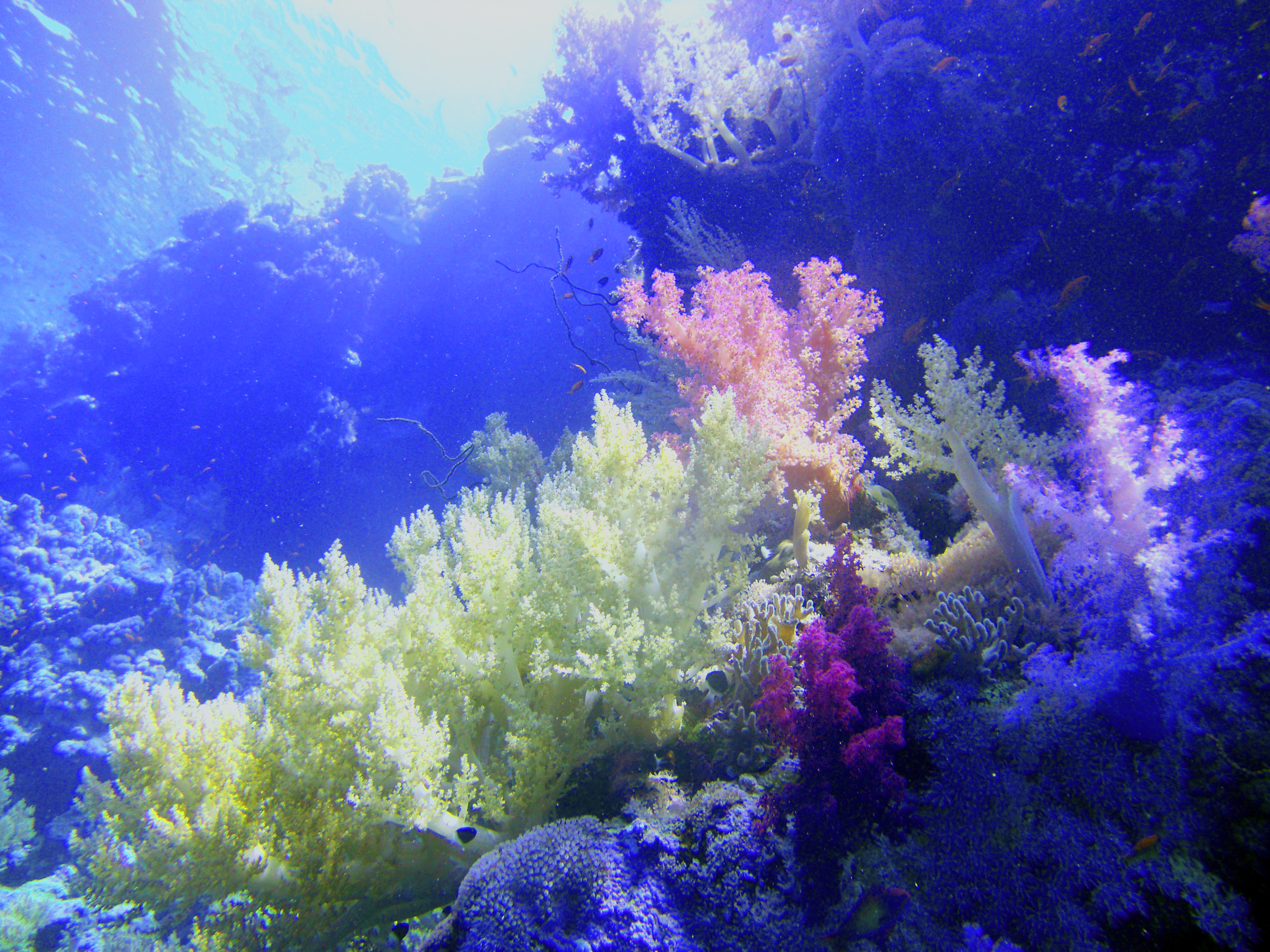 Soft corals (Nephtheidae spp.) Red Sea